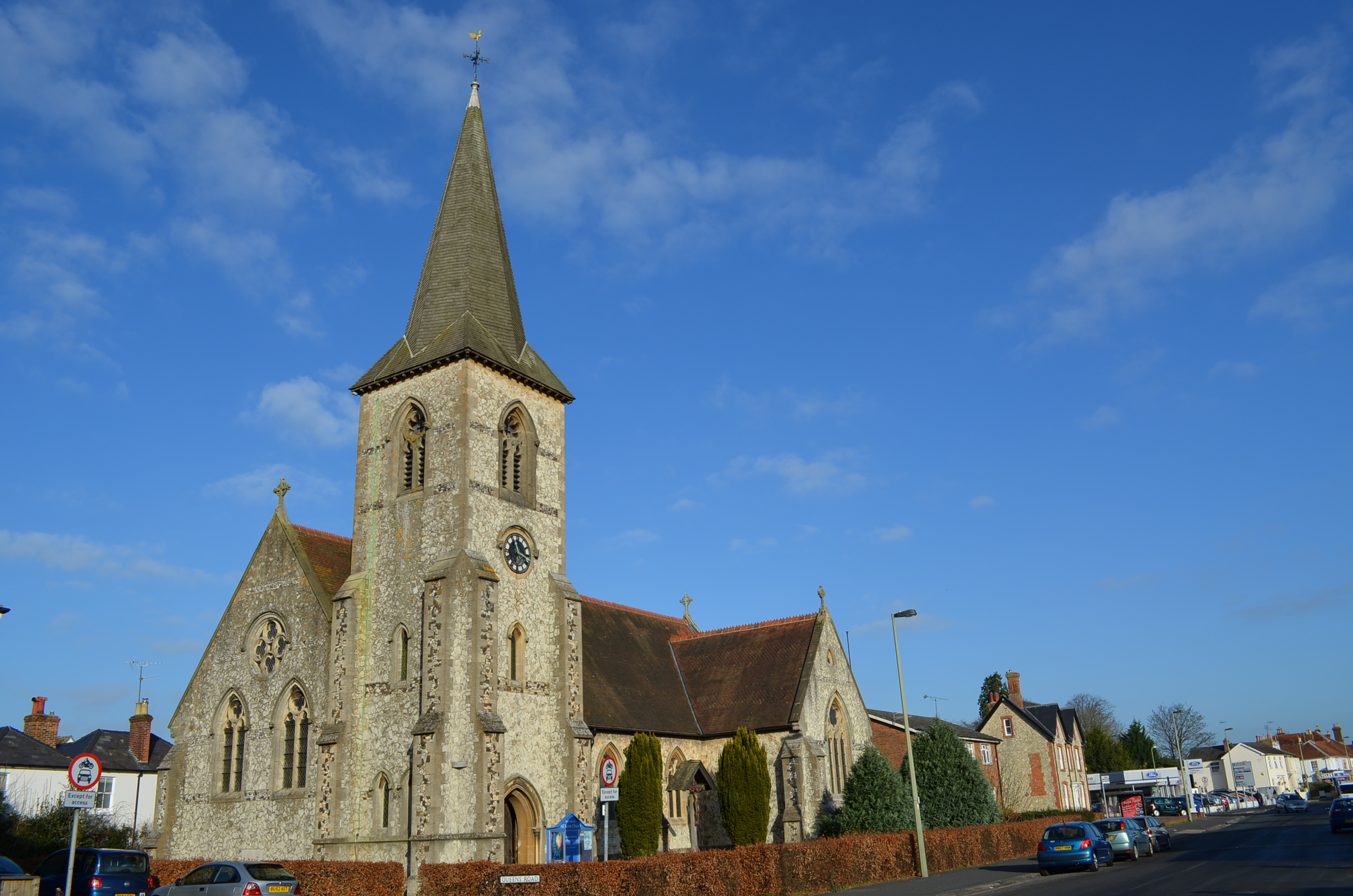 All Saints' parish church, Butts Road, Alton, Hampshire, seen from the south